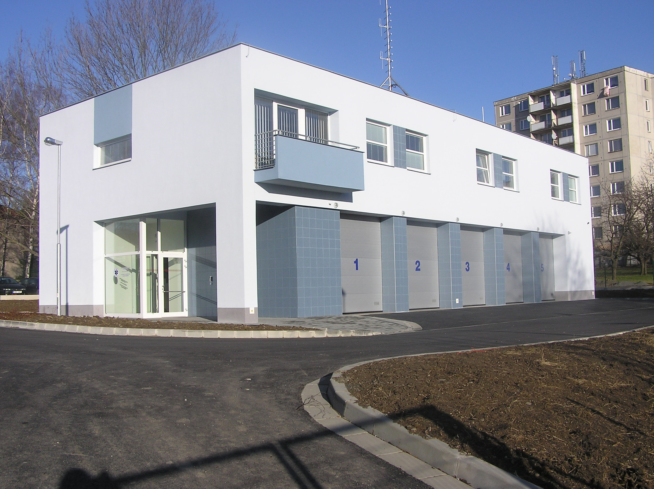 Ambulance station of the Emergency Medical Service of Zlín Region, Valašské Meziříčí, Czech Republic Česky: Oblastní výjezdové stanoviště Zdravotnické záchranné služby Zlínského kraje ve Valašském Meziříčí